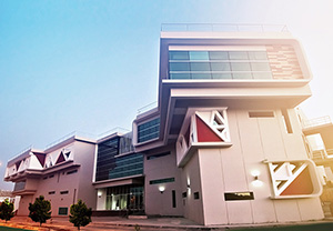 Teaching and learning block 2 in a buildup area of 4600 square metres named after Abu al-Walid Muhammad ibn Ahmad ibn Rushd, one of the greatest thinkers and scientists of the history